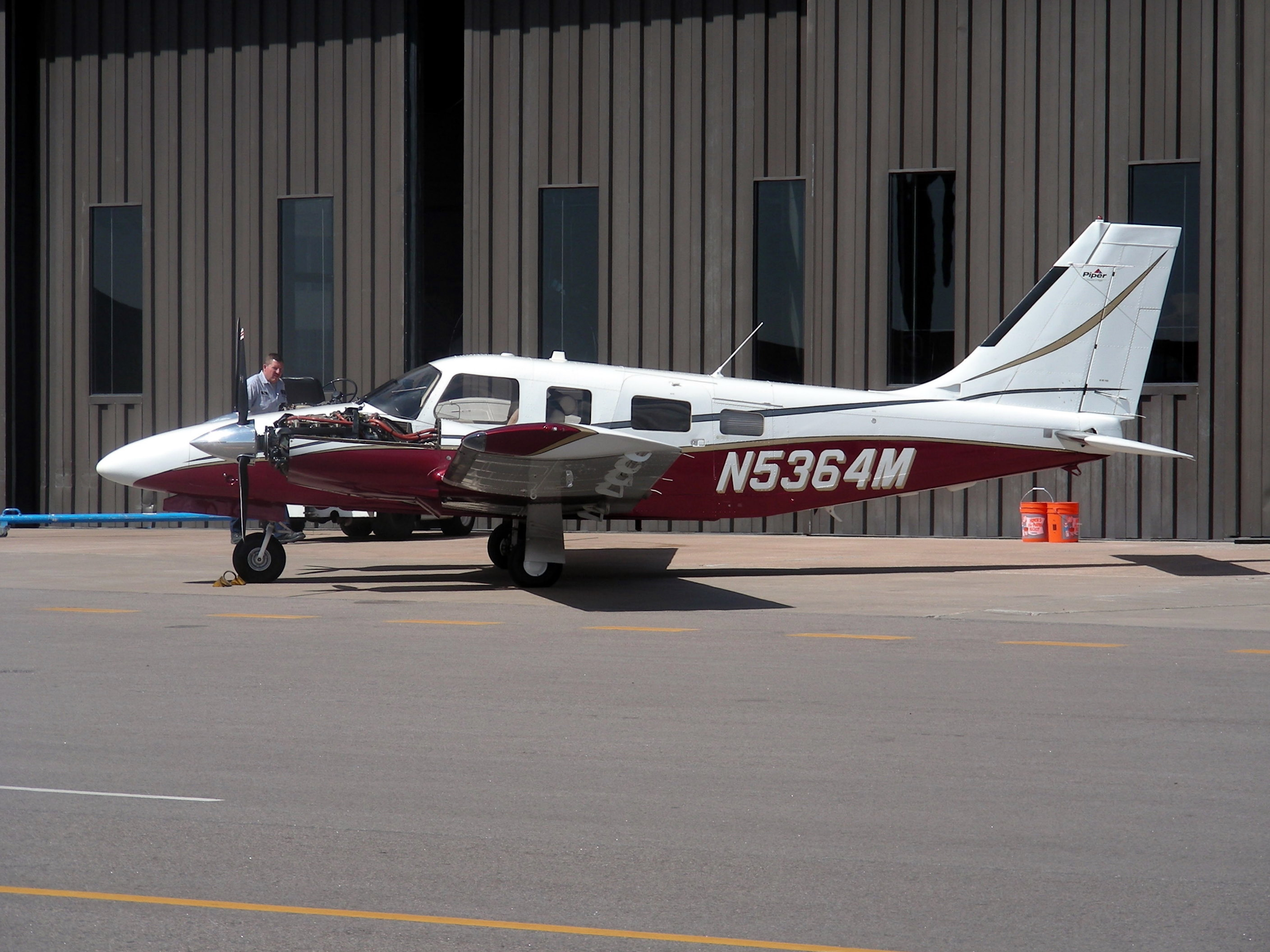 Piper Seneca at Centennial Airport with engine maintenance in process.